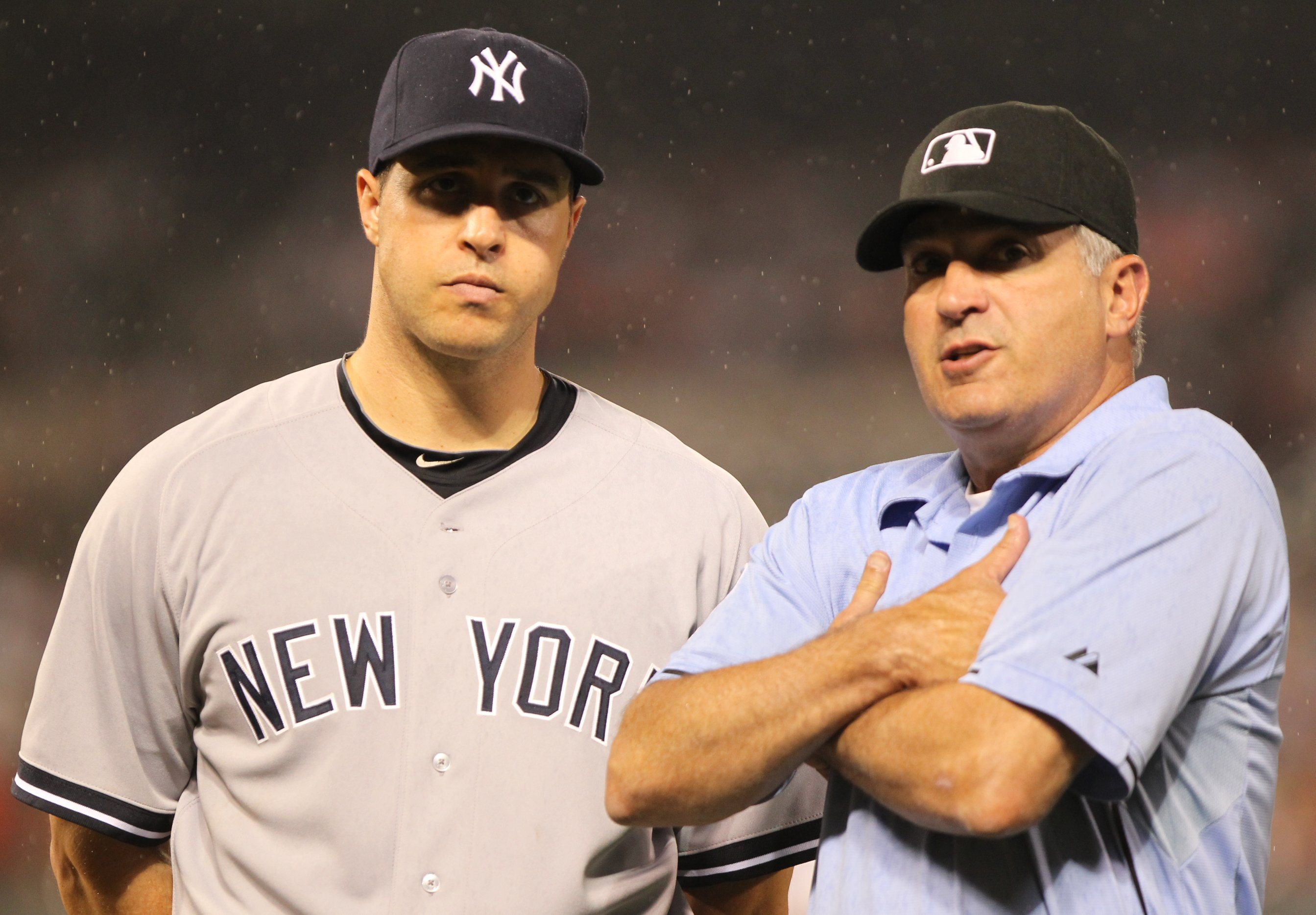 Yankees player Mark Teixeira talks with umpire John Hirschbeck.